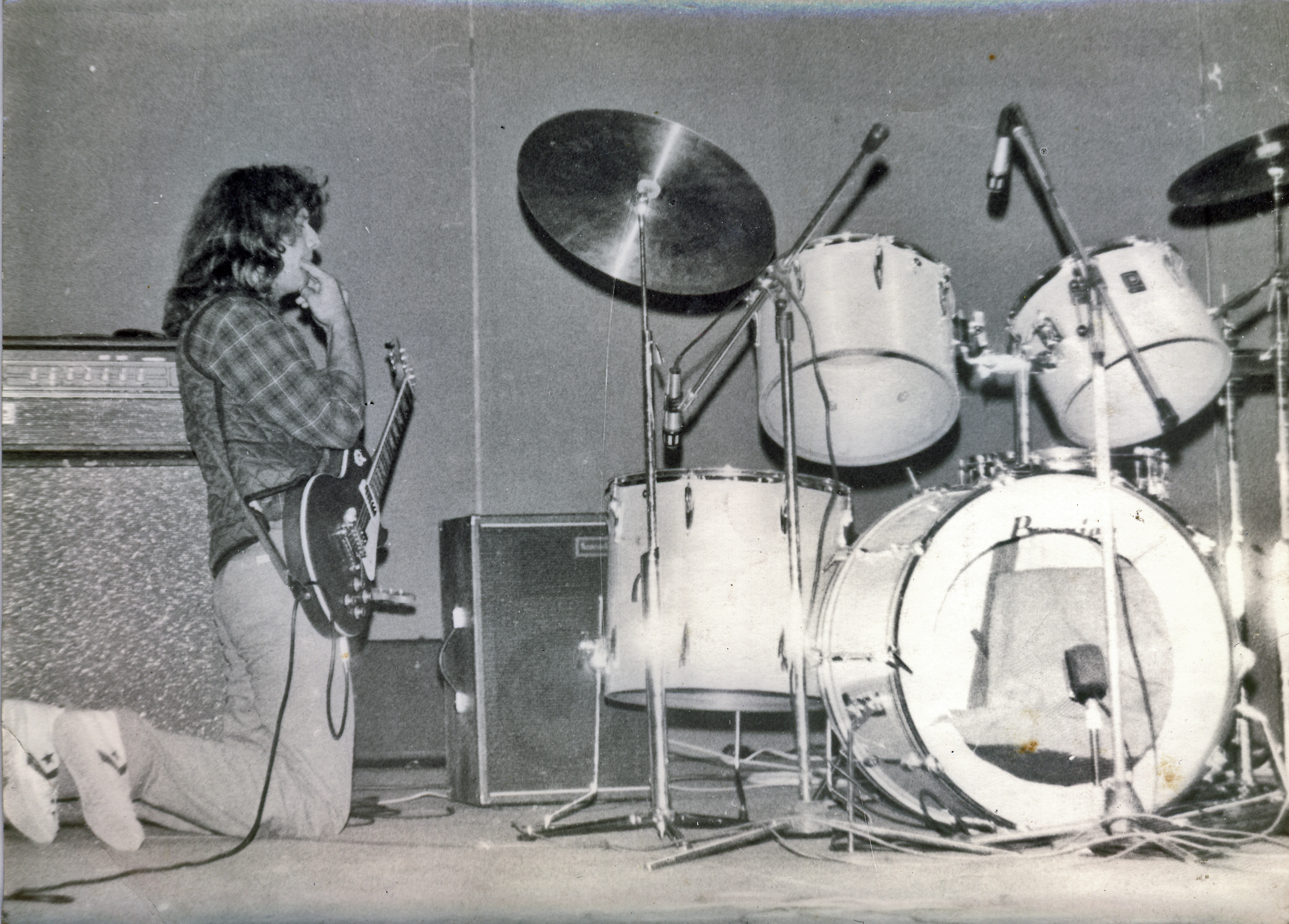 Dragan Jovanović Krle, guitarist of the band Generacija 5 (Generation 5)